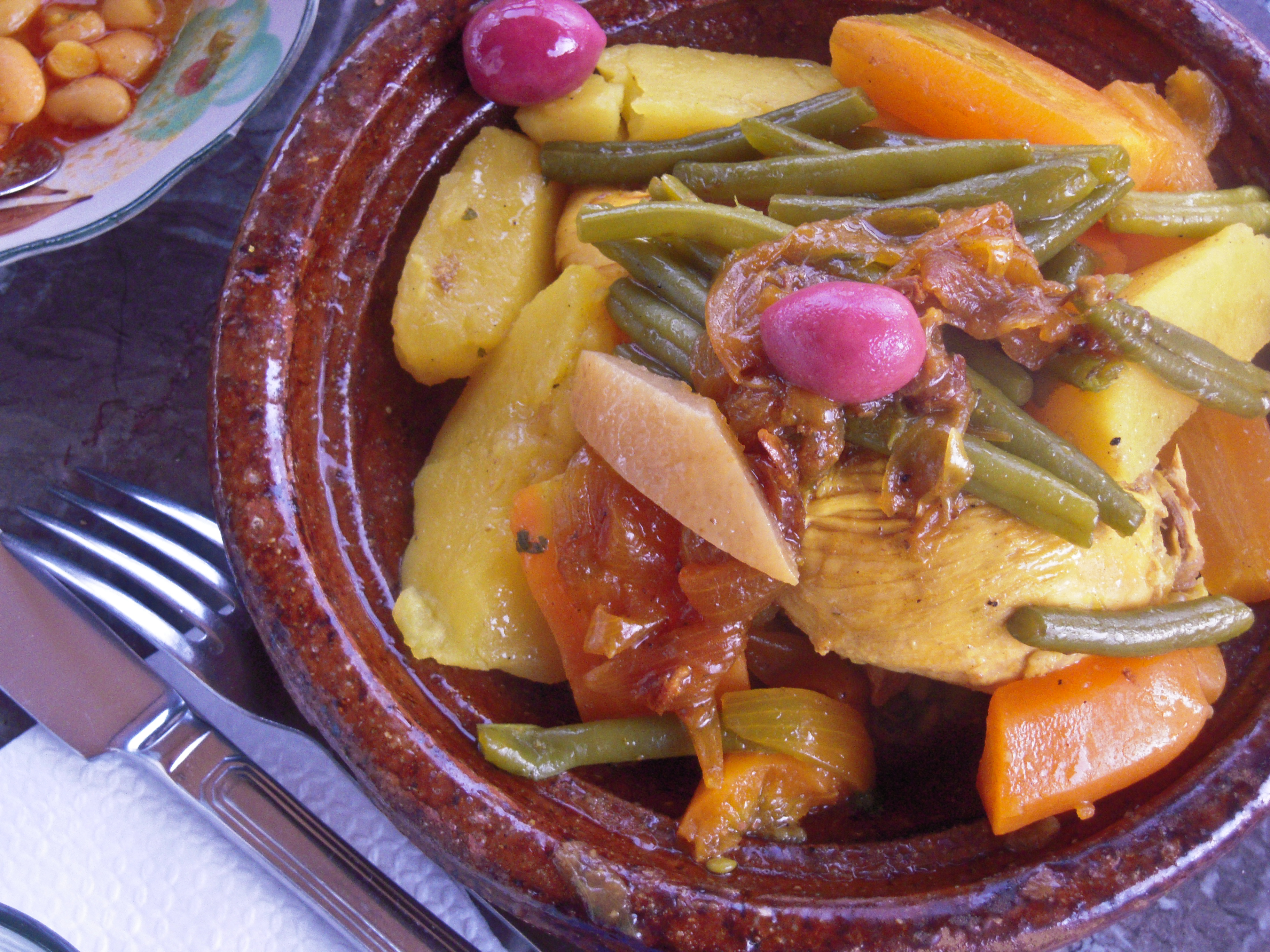 Moroccan food and drink - tajine